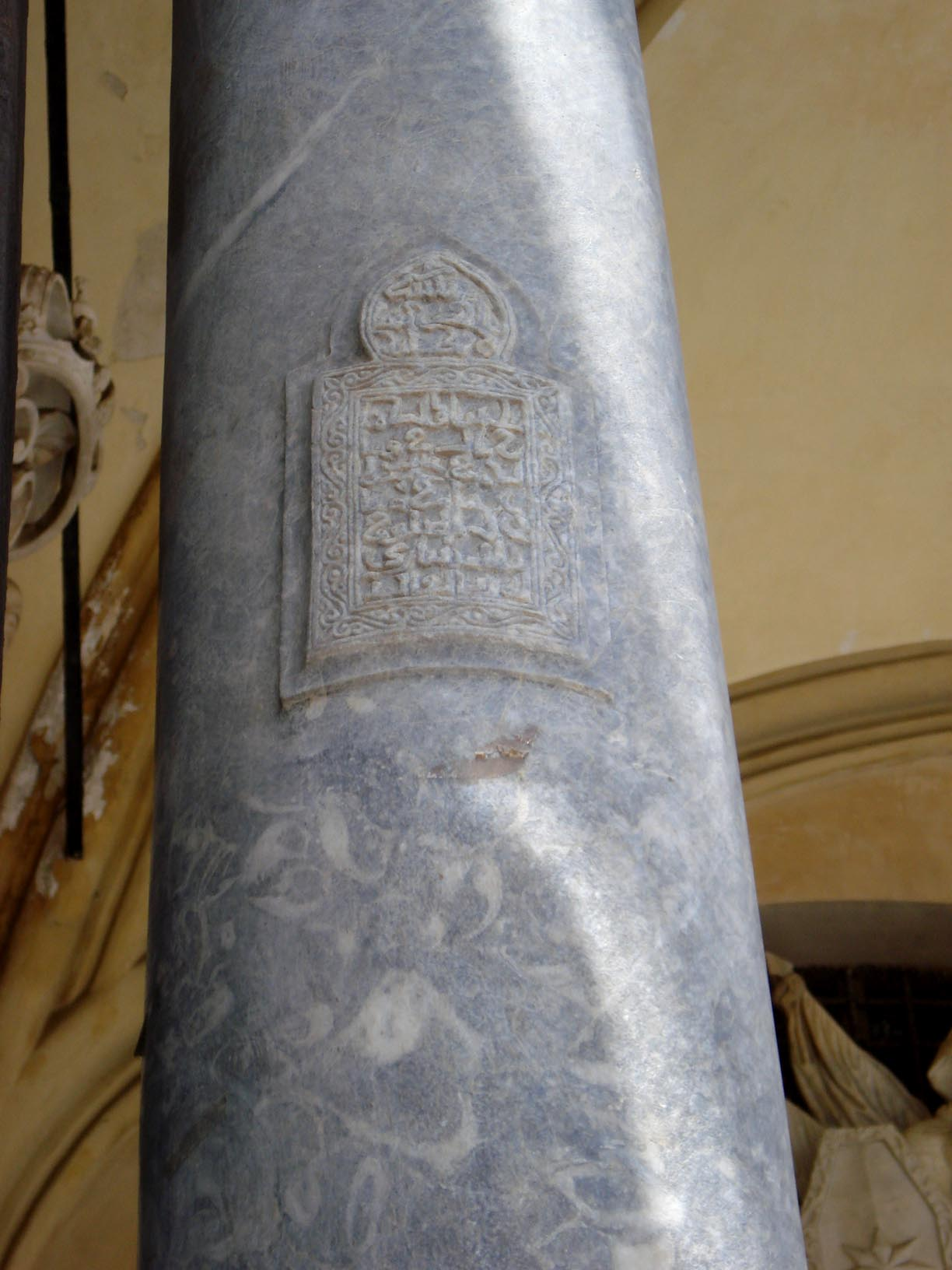 Сolumn with arab inscription (Palermo Cathedral)